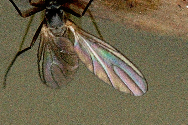 Picture taken in Commanster, Belgian High Ardennes . Species: Bradysia sp., wing detail